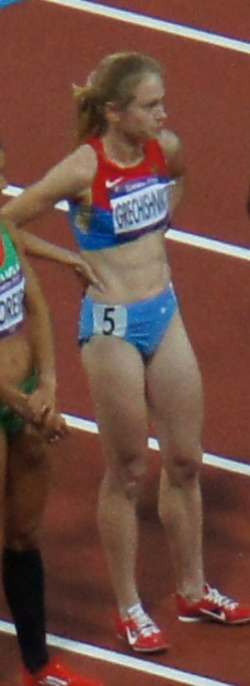 Yelizaveta Grechishnikova at the 2012 Summer Olympics